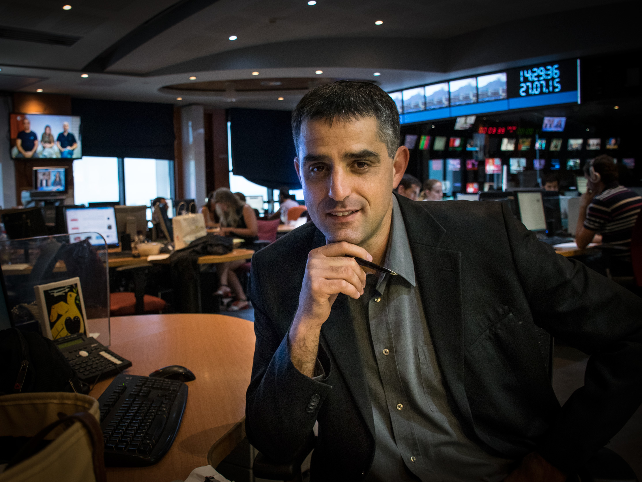 Baruch Kra